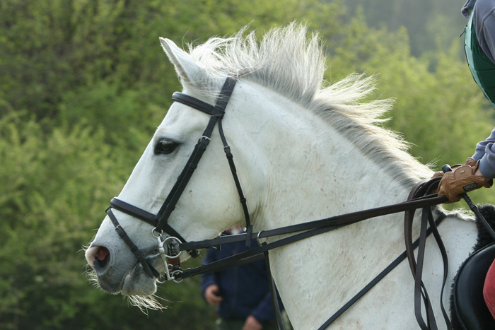 Sapphire cantering towards a jump with the evening sun shining through her mane